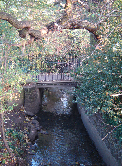 River Moselle in Tottenham Cemetery, Haringey, London. 22 November 2005. Photographer: Fin Fahey.